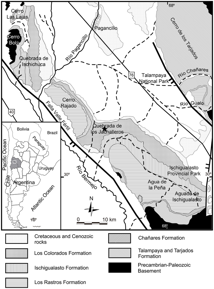 Geological map of the Los Colorados Formation, Ischigualasto-Villa Unión Basin, La Rioja, Argentina. Star indicates the location where the specimens were collected. Modified from Baczko et al. 2014.